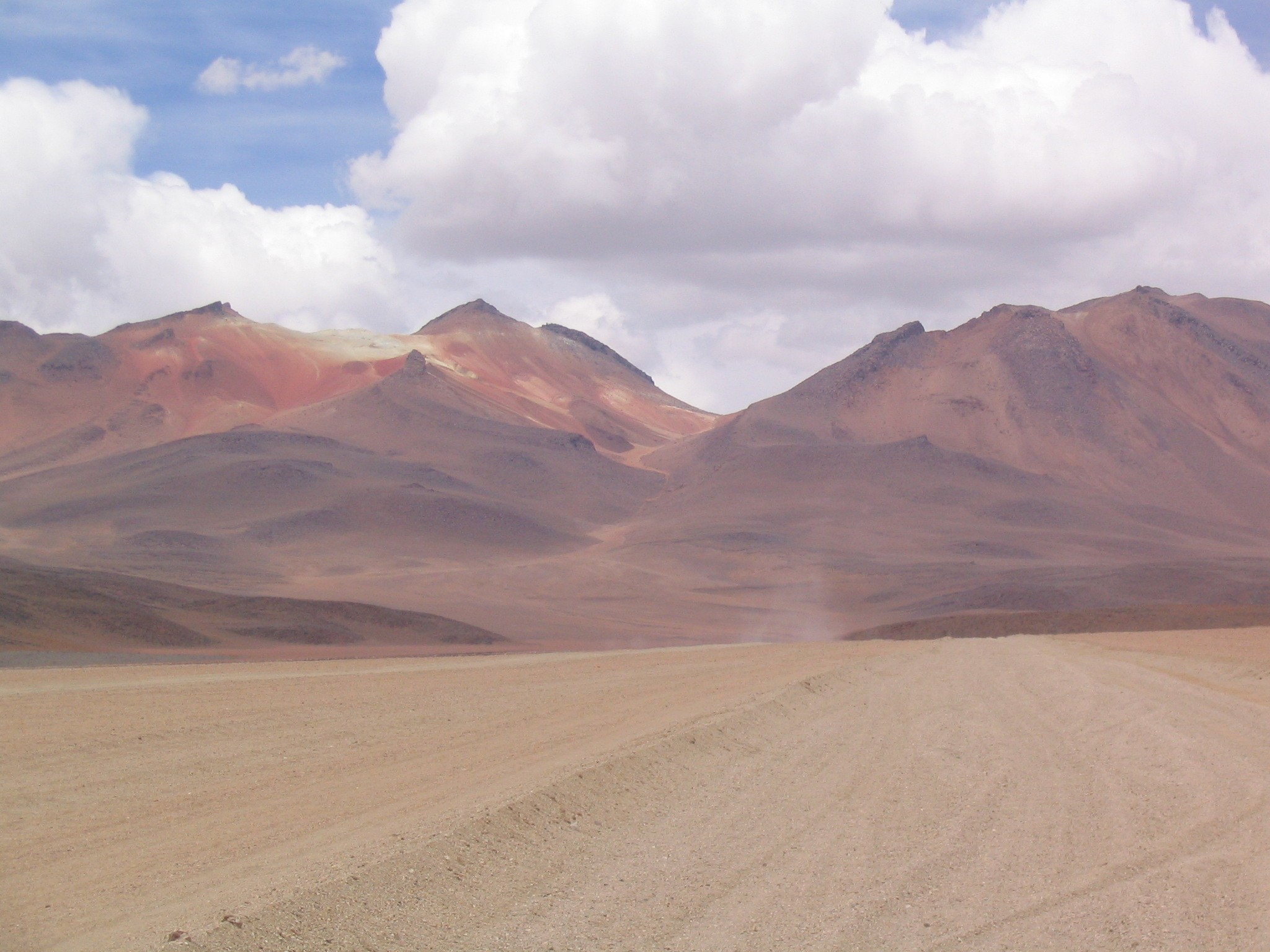 The "Salvador Dalí Desert" in Bolivia